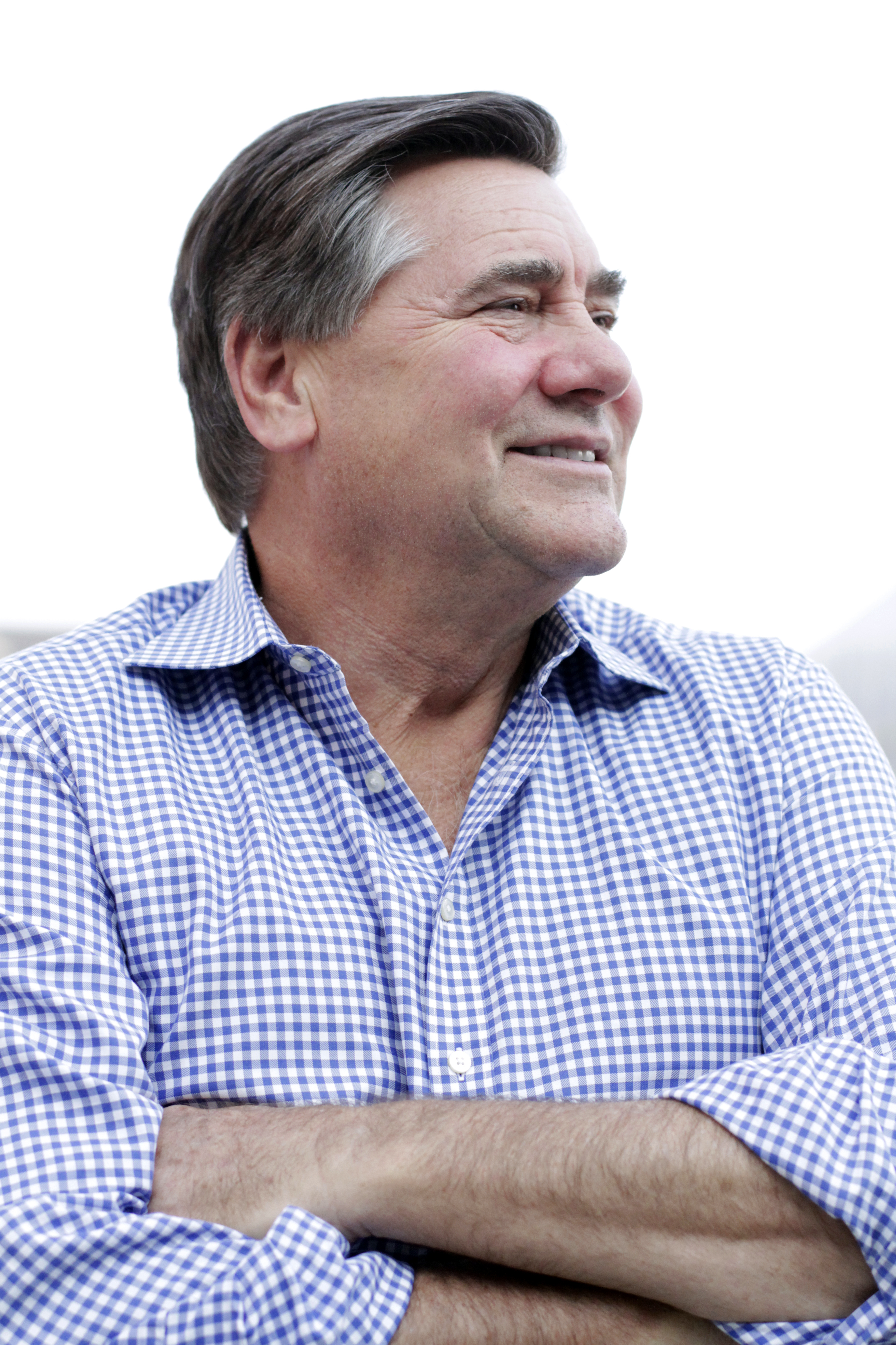 Chairman of Gale International